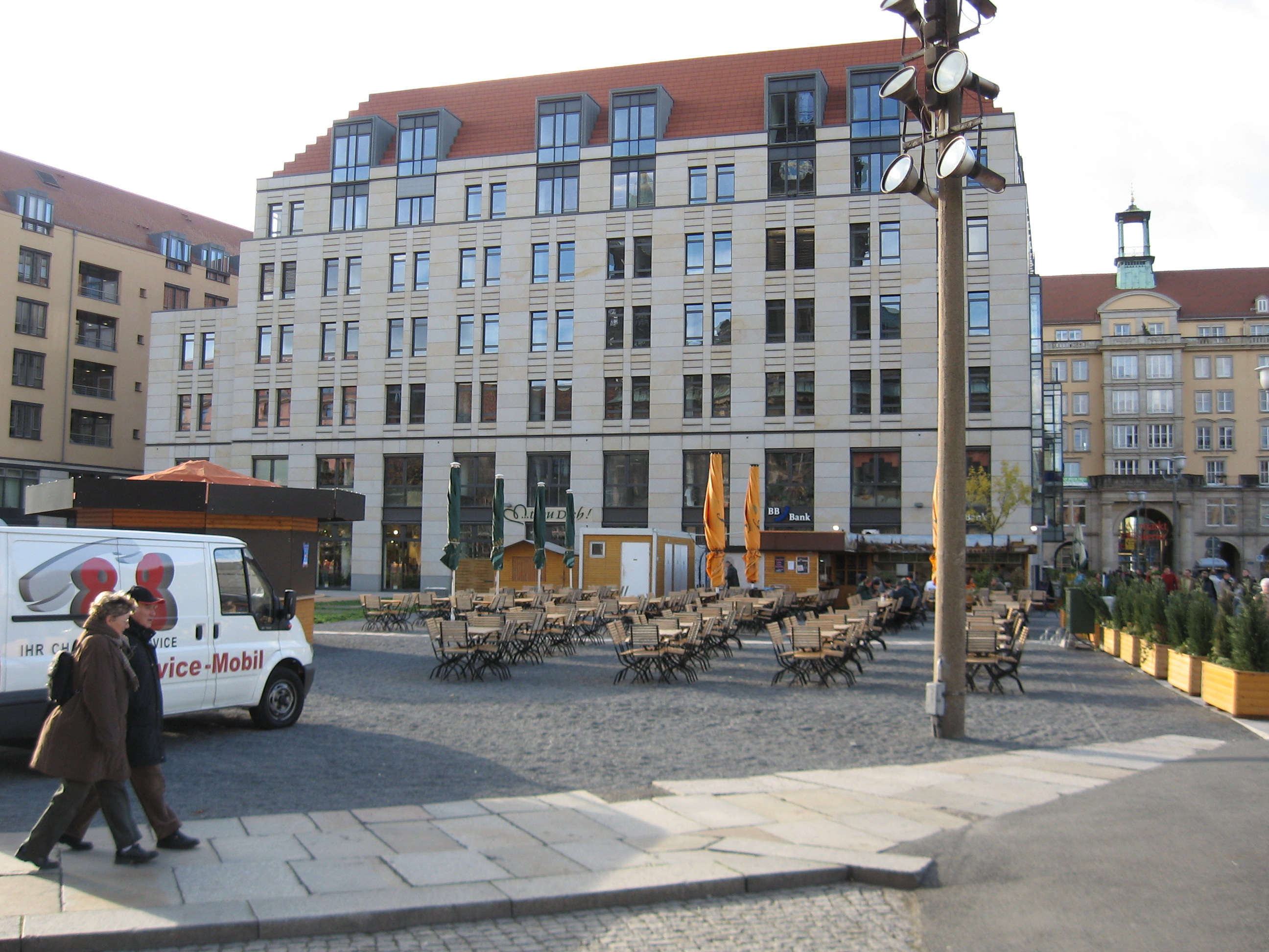 The Old Market of Dresden in Saxony.